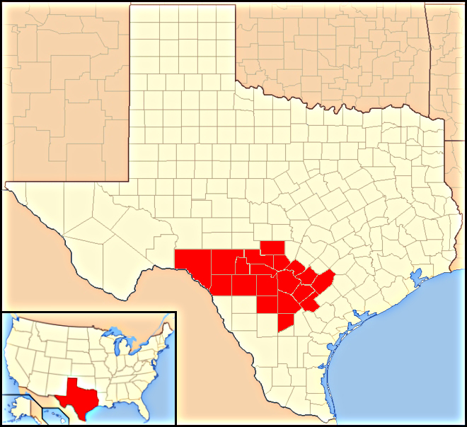 Map of the Catholic Archdiocese of San Antonio in the USA.